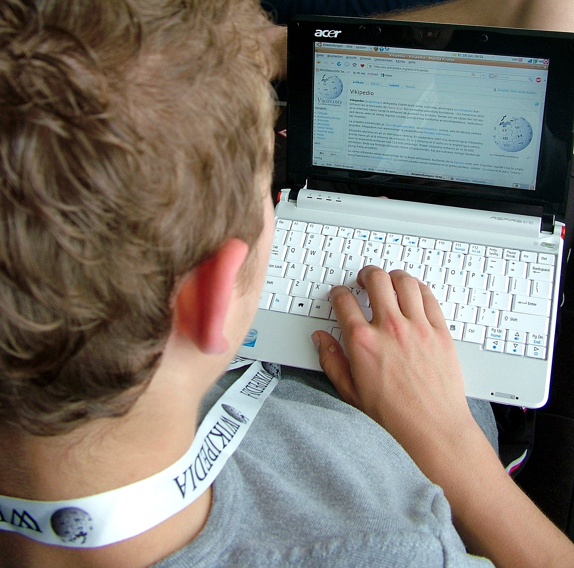 Wikipedia youngsters, photographs taken for Wikimedia promotion.